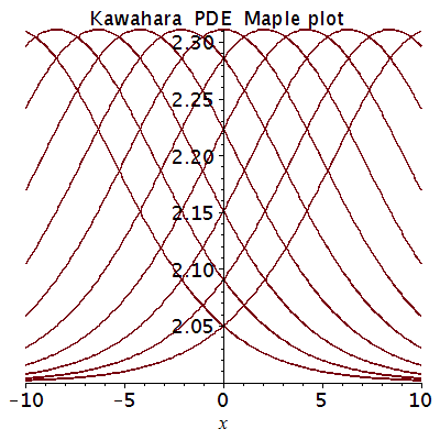 Kawahara pde Maple plot